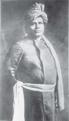 Swami Trigunatitananda, a direct disciple of Ramakrishna Paramahamsa and founder of Vedanta Societies in United States.